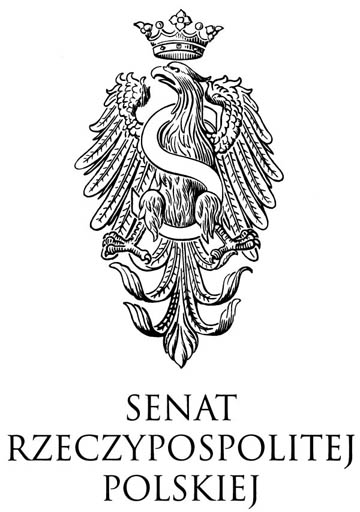 Coat of Arms of the Polish Senate, based on the Coat of Arms of Poland from the times of kings Stefan Batory and Sigismund the Old. Taken from the official webpage of the senate ([1])